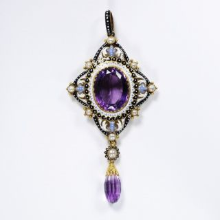 Enamelled gold, amethyst and pearl pendant, about 1880, Pasquale Novissimo, born 1844 - died 1914 V&A Museum number M.36-1928